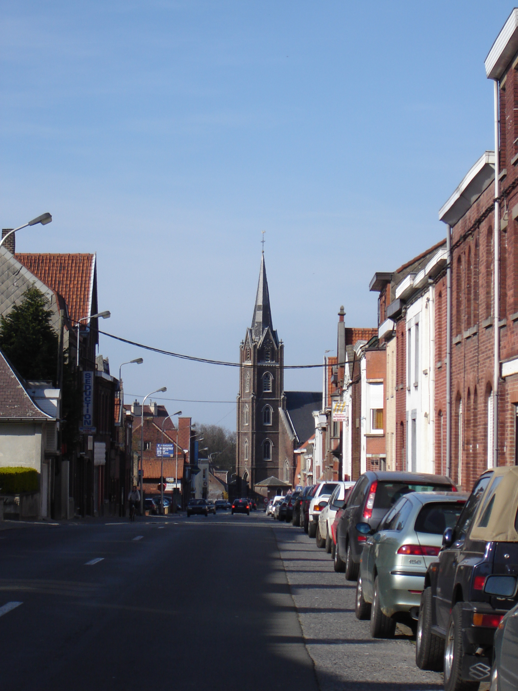 Church of Saint Amand in Luingne, as seen from the street Chaussée de Luingne (picture still taken on territory of Herseaux however). Luingne, Mouscron, Hainaut, Belgium